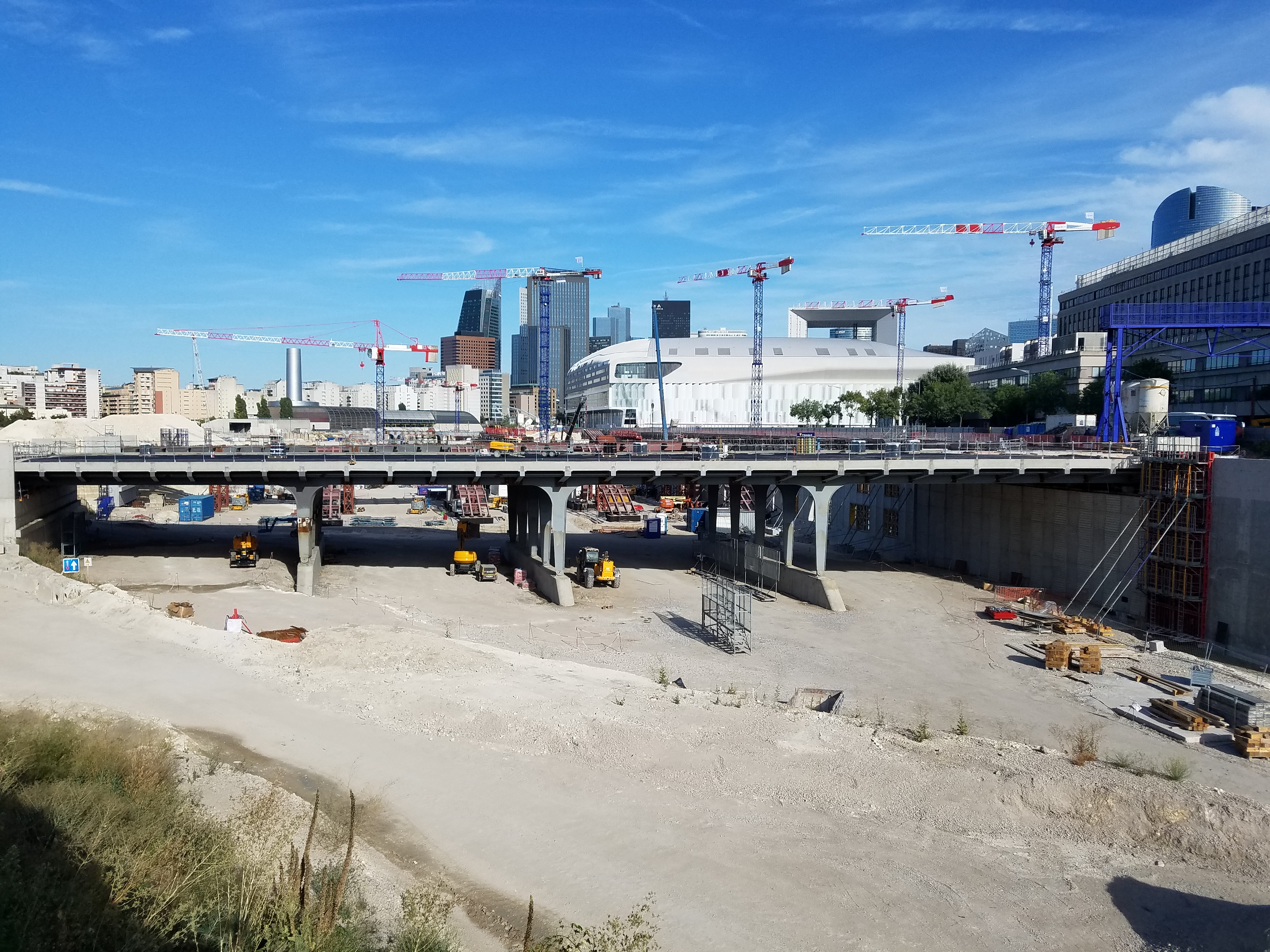 Nanterre-La Folie train station building site